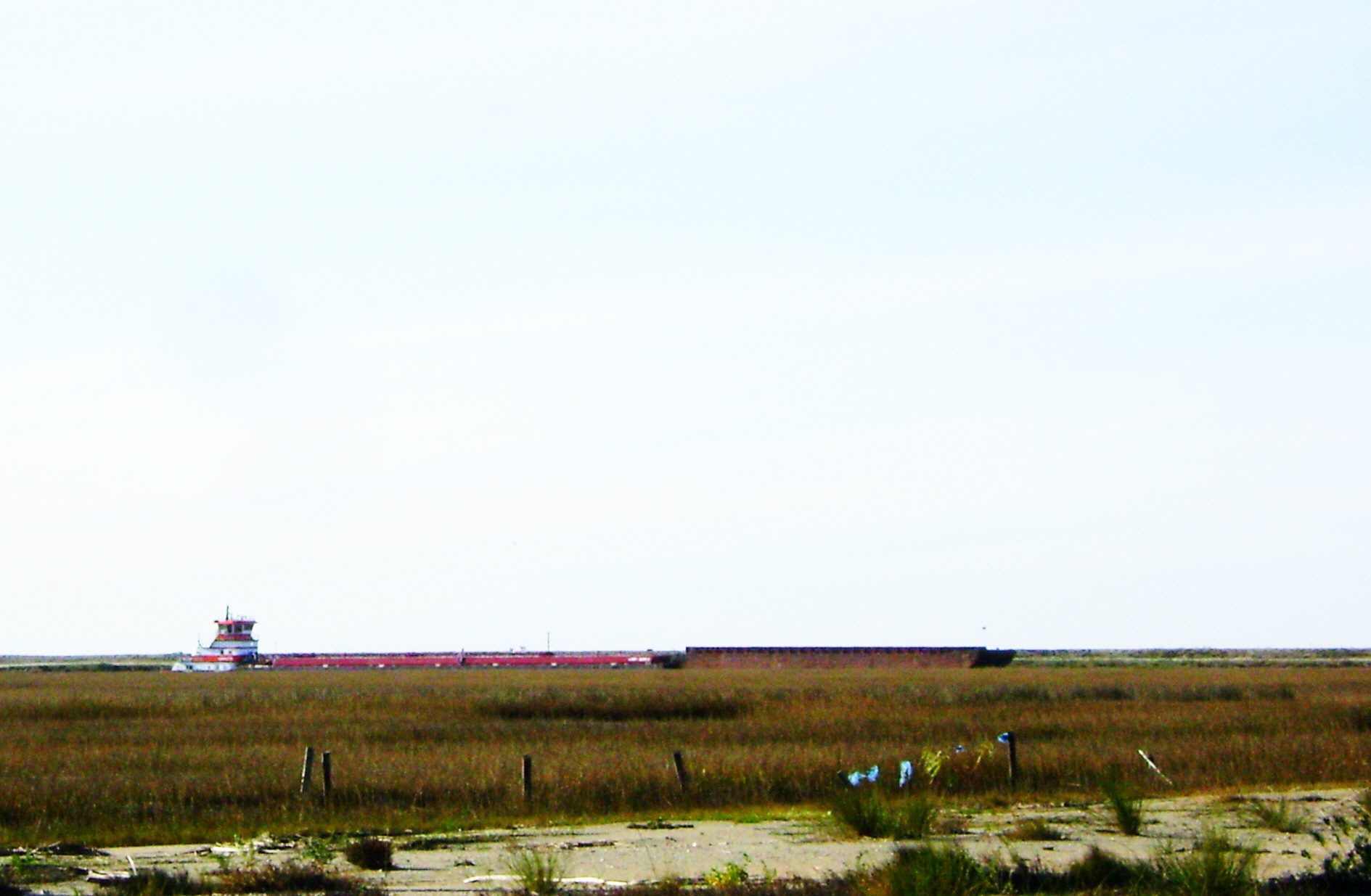 The following is the author's description of the photograph quoted directly from the photograph's Flickr page."A common site along the Gulf Coast: a tug pushing barges across the prairie. "